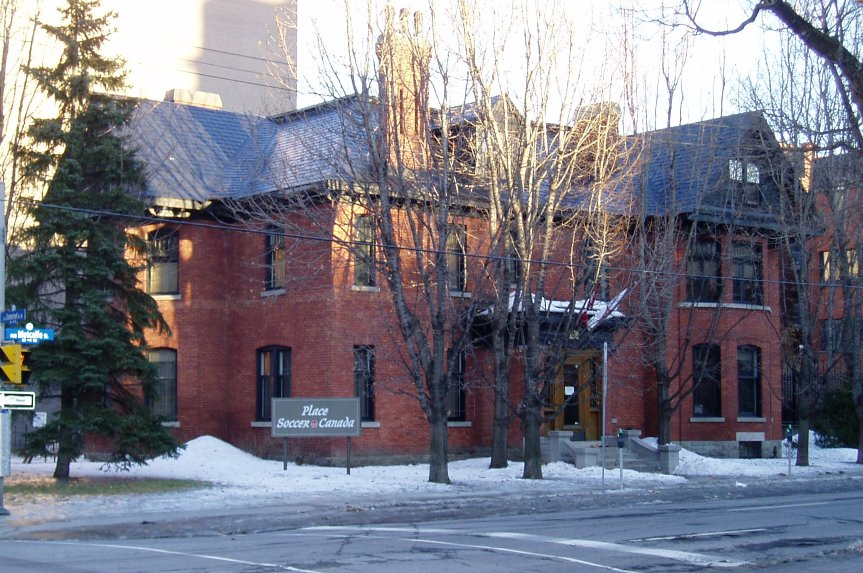 Taken by SimonP in January 2005